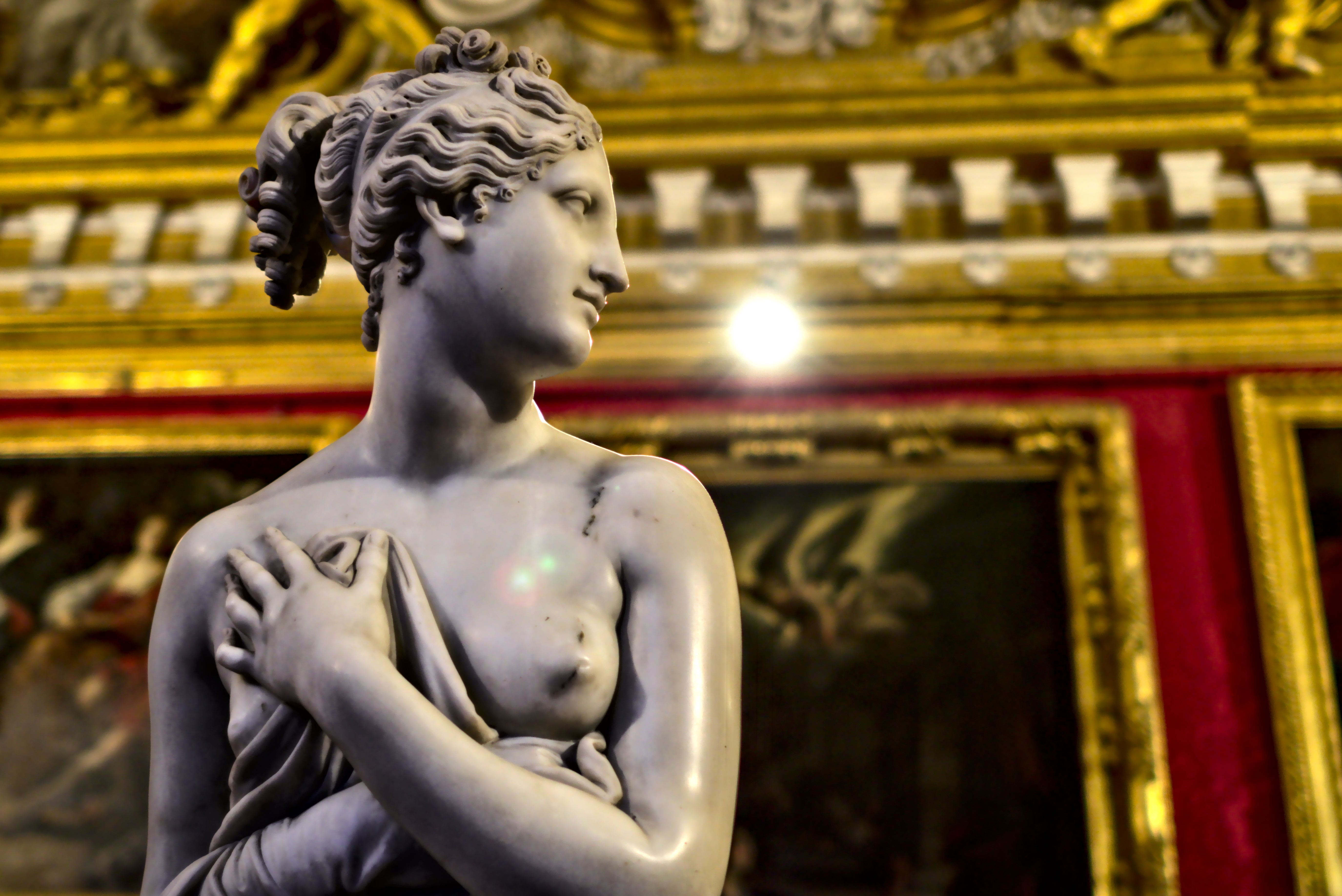 Close-up of "Venere Italica" by Italian Neoclassical sculptor Antonio Canova